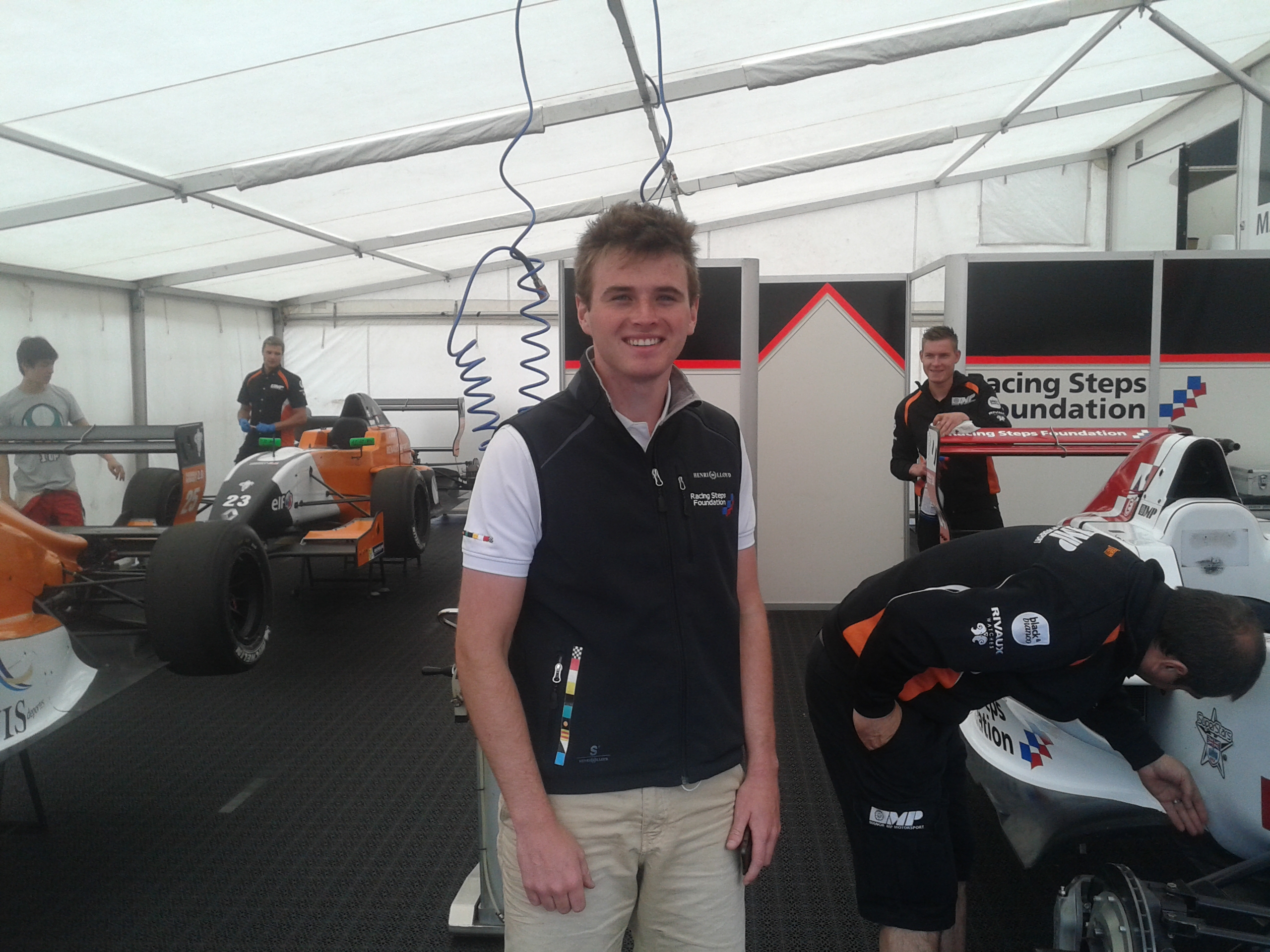 Oliver Rowland at Moscow Raceway, 22 June 2013